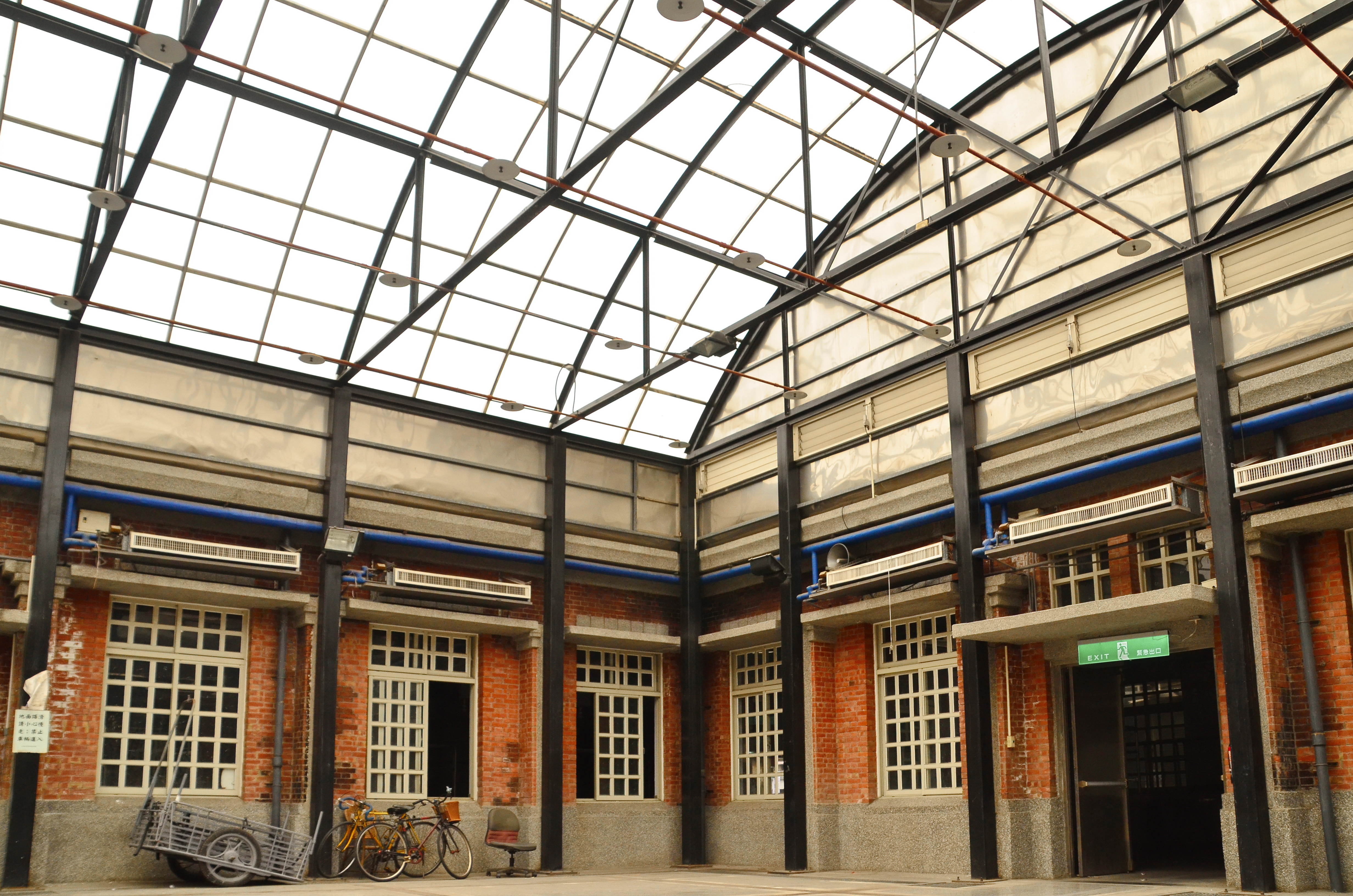 Beidou Red-Brick Traditional Market, Beidou Township, Changhua County, Taiwan.